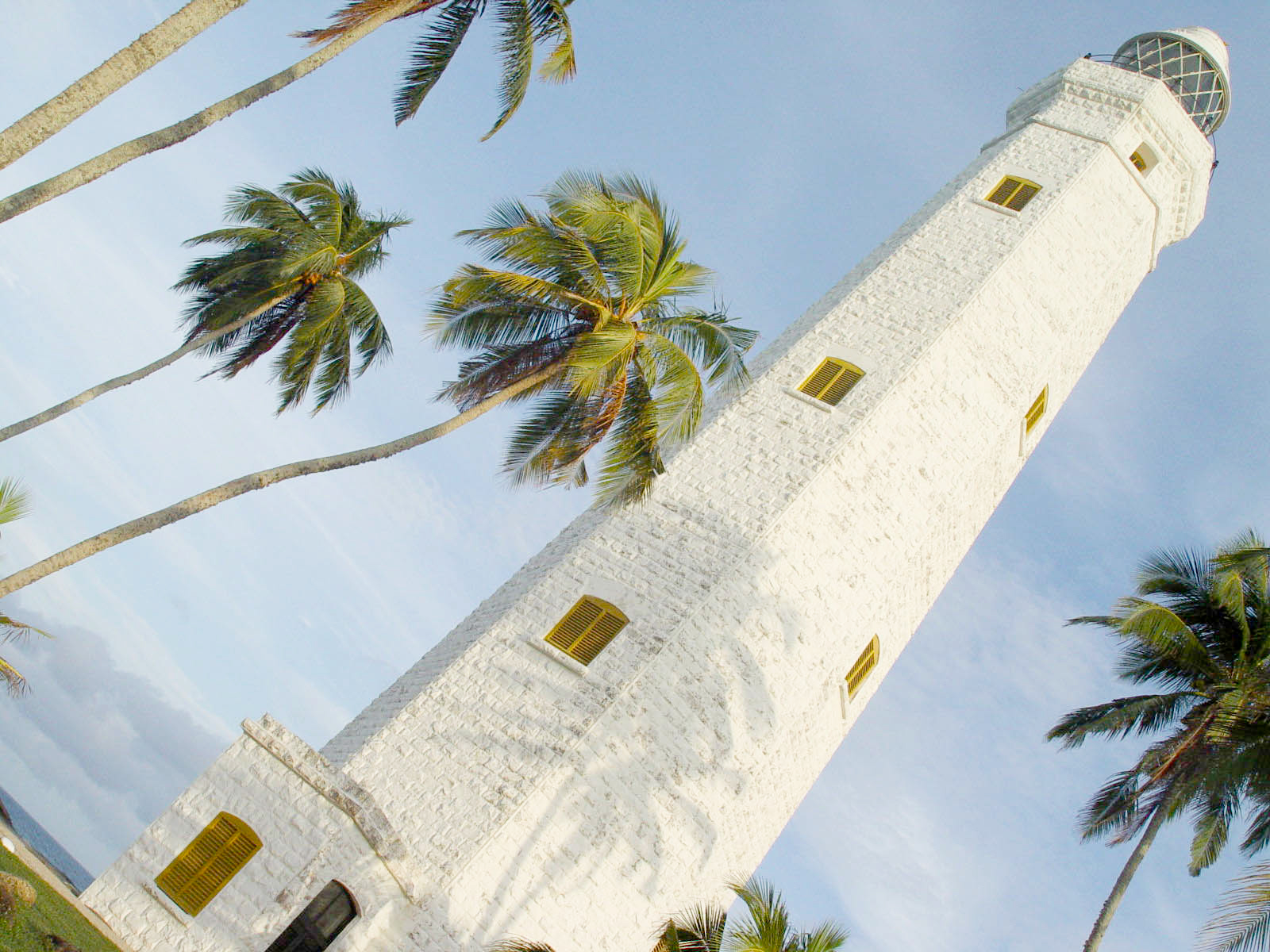 Lighthouse at Dondra Head (Devundara Thuduwa) – the southernmost point of Sri Lanka